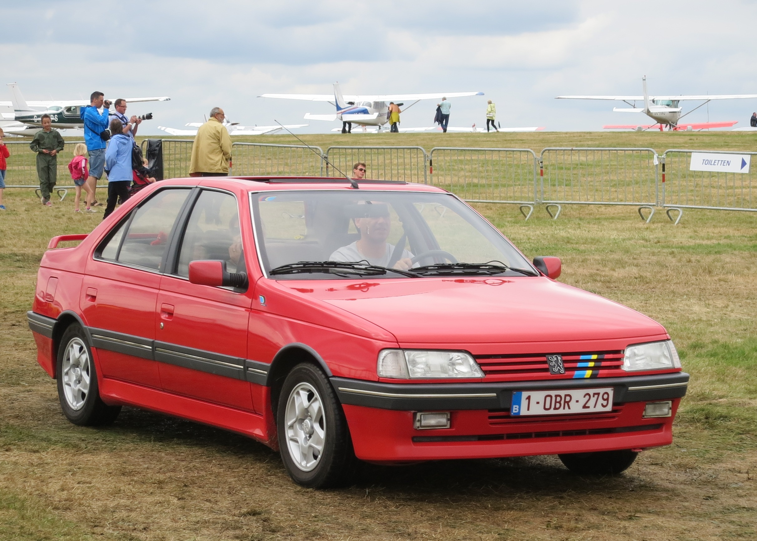 Peugeot 405 Mi16 in Belgium